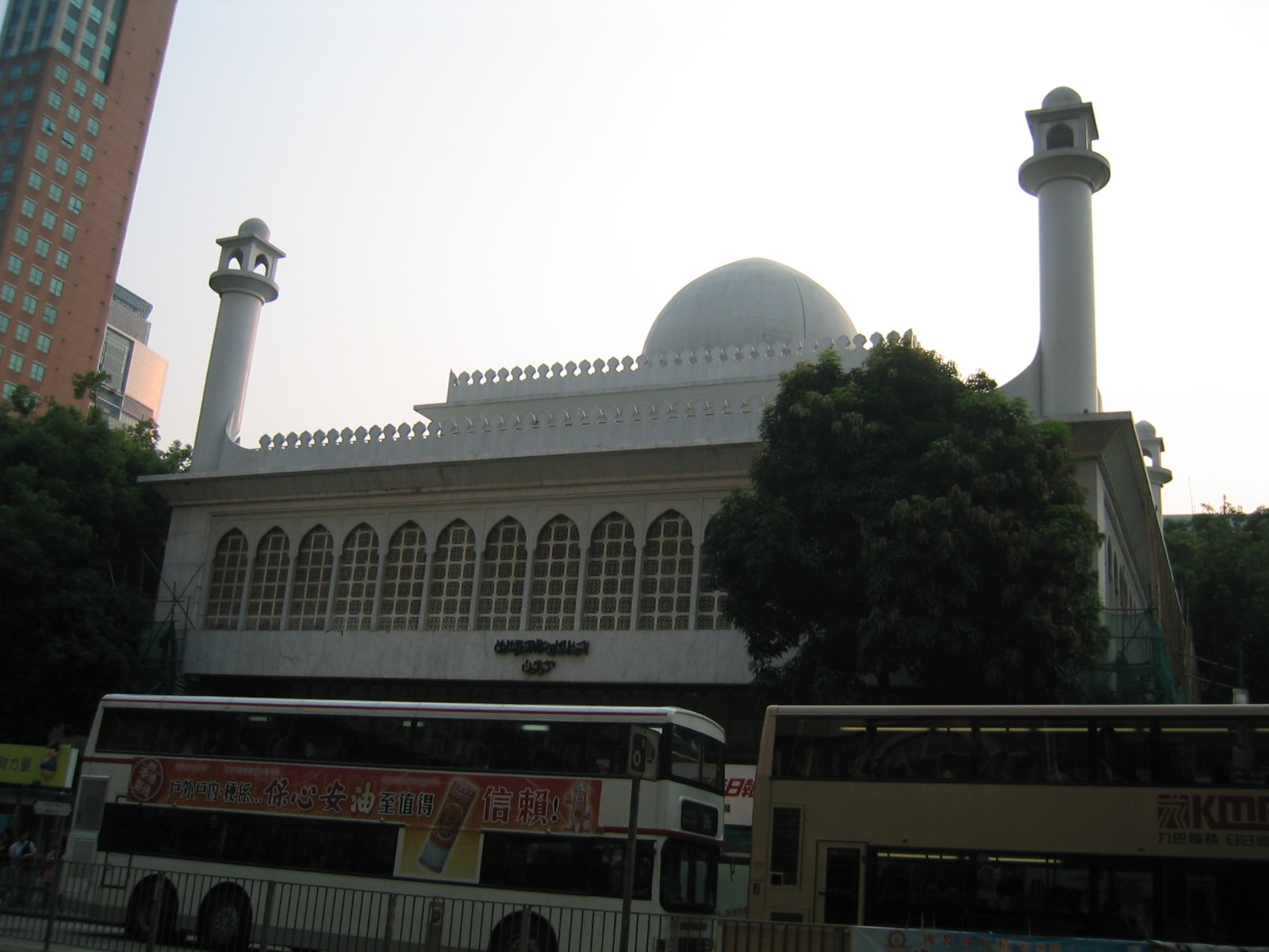 The Kowloon Masjid and Islamic Centre at Tsim Sha Tsui, Hong Kong